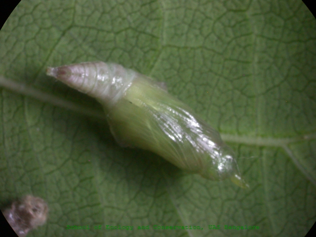 Chrysalis of Cepora nerissa